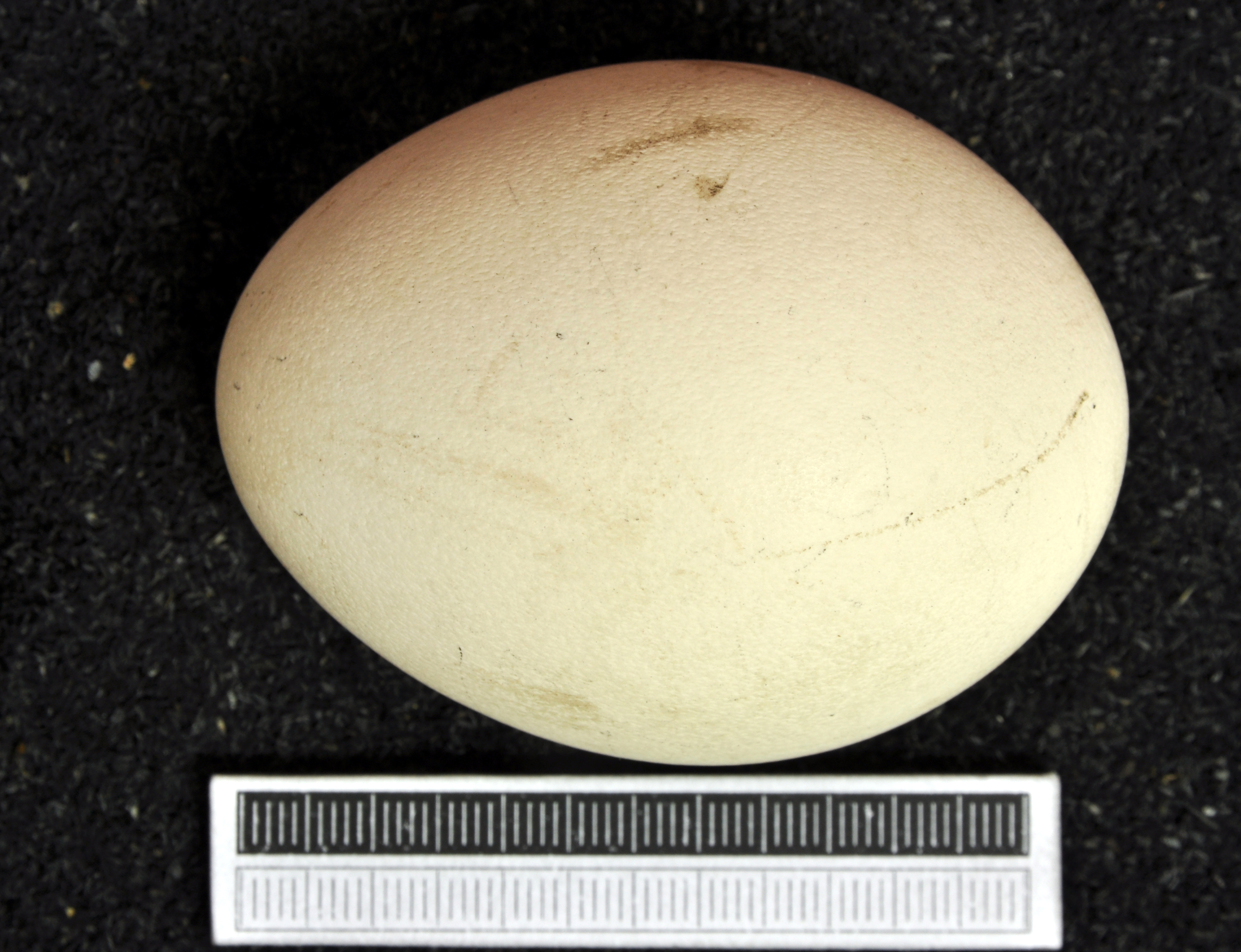 Indian peafowl Pavo cristatus , egg, Coll. Museum Wiesbaden